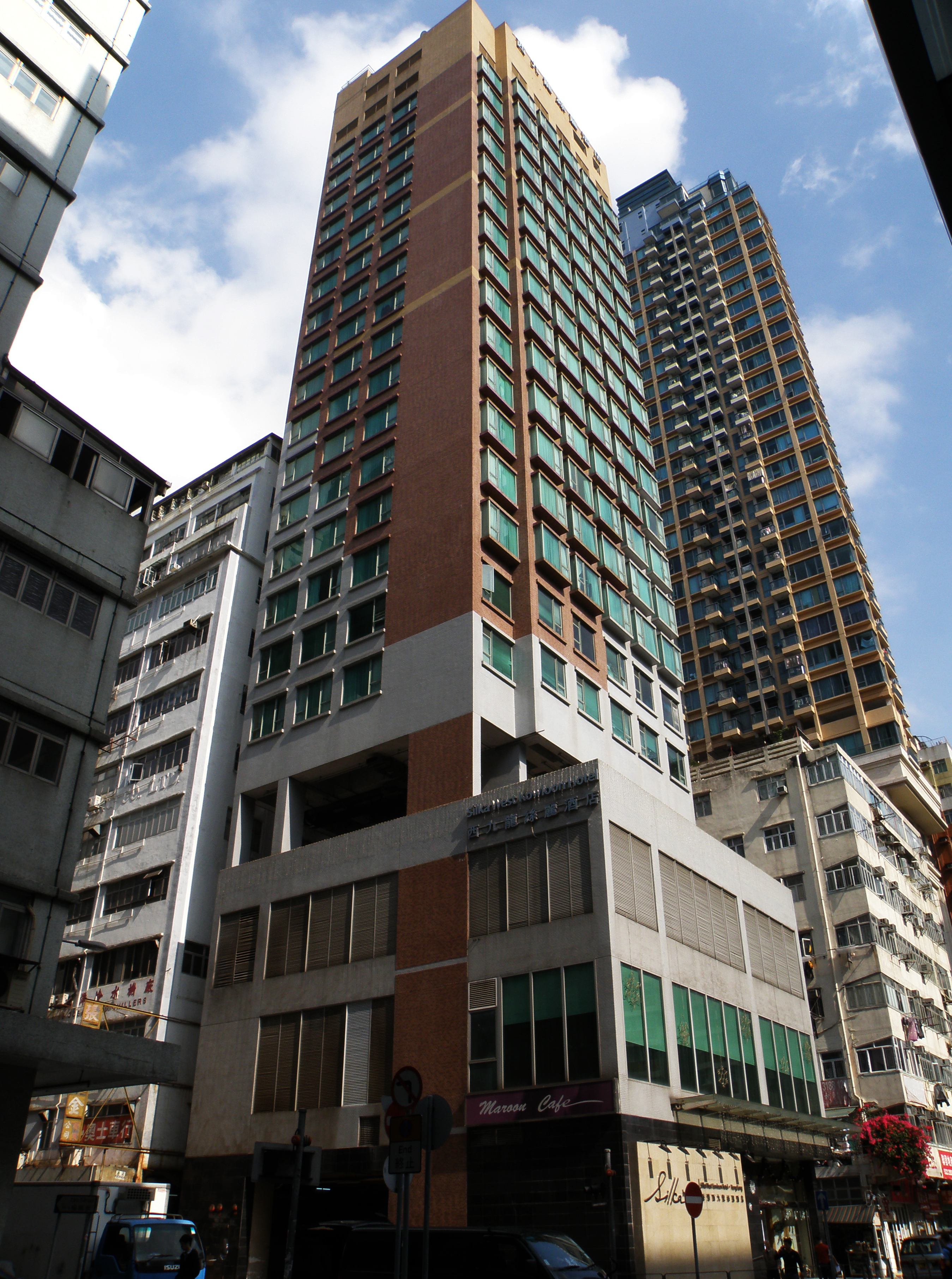 Silka West Kowloon Hotel in Tai Kok Tsui, Hong Kong.